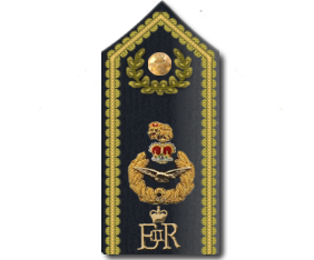 Rank Shoulder Board for RAF Air Officers, for use on their no.1A Dress uniform.